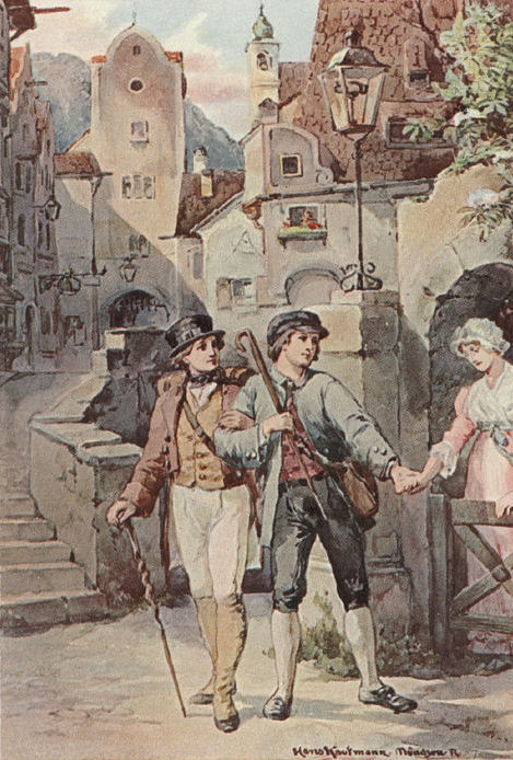 illustration of Friedrich Schiller's "Song of the Bell" (German: "Das Lied von der Glocke")